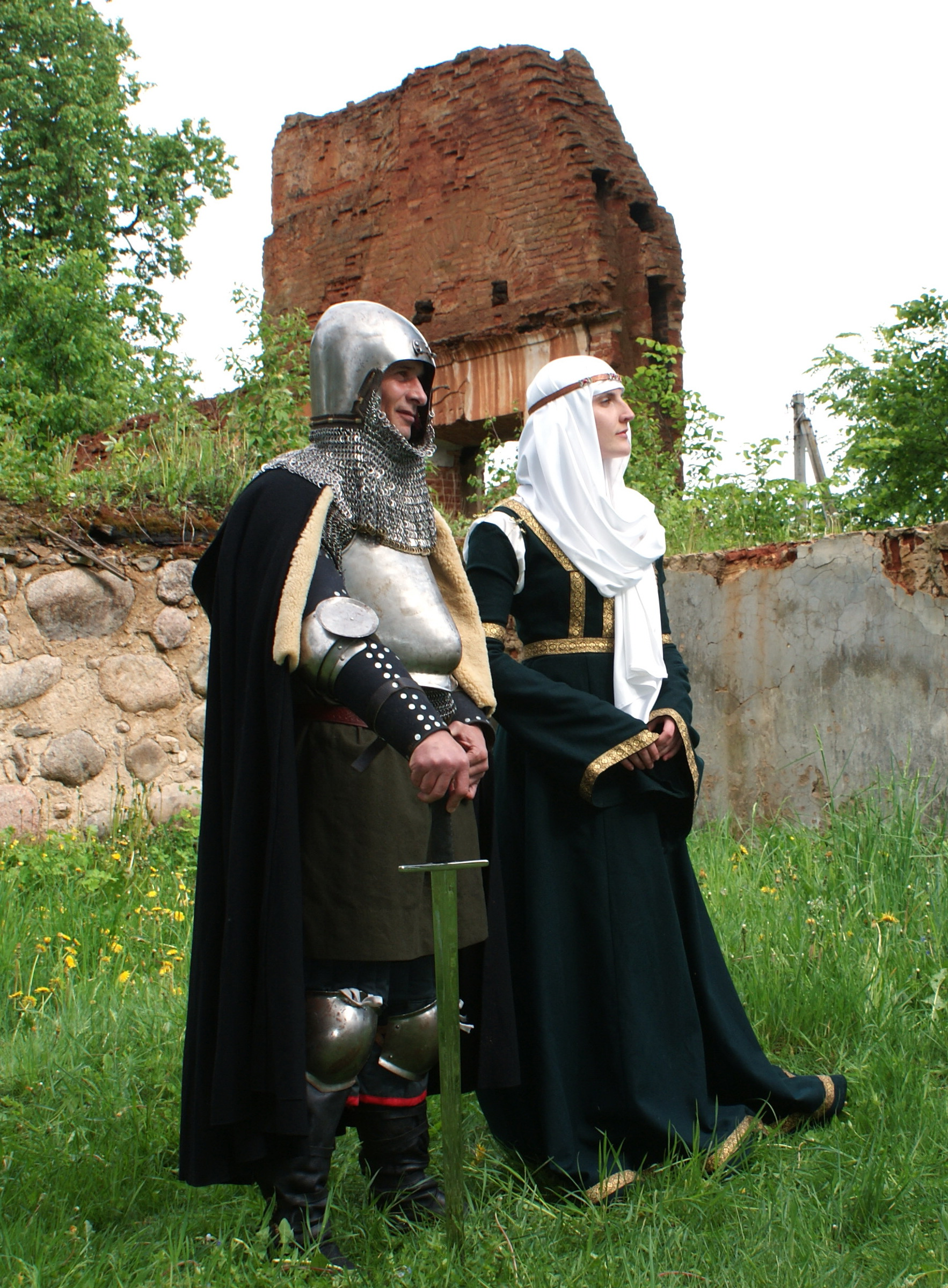 Byelorussian historical animators